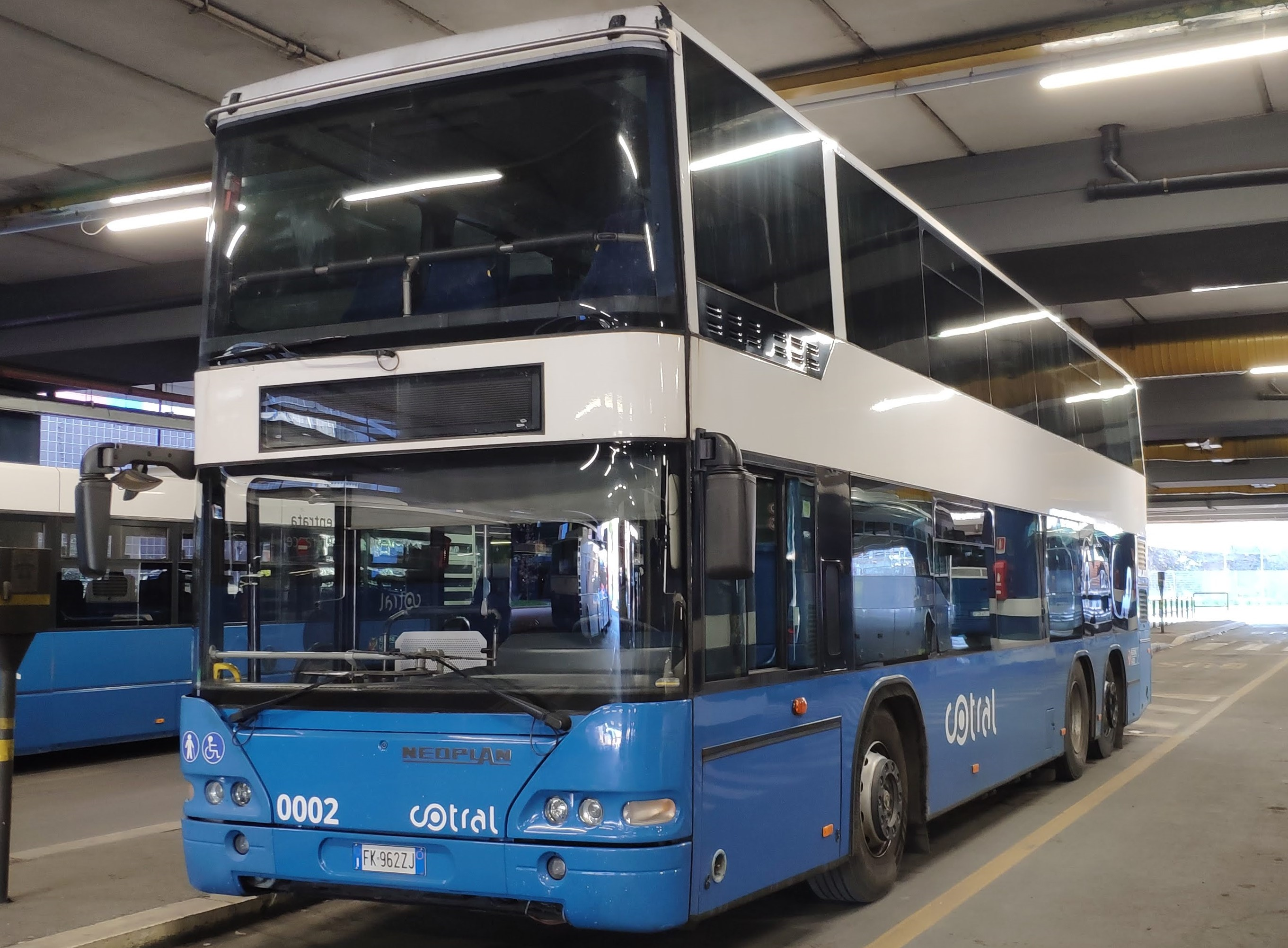 A Cotral Neoplan N4426/3 Centroliner DD (Nr. 0002) out of service at Ponte Mammolo metro station.